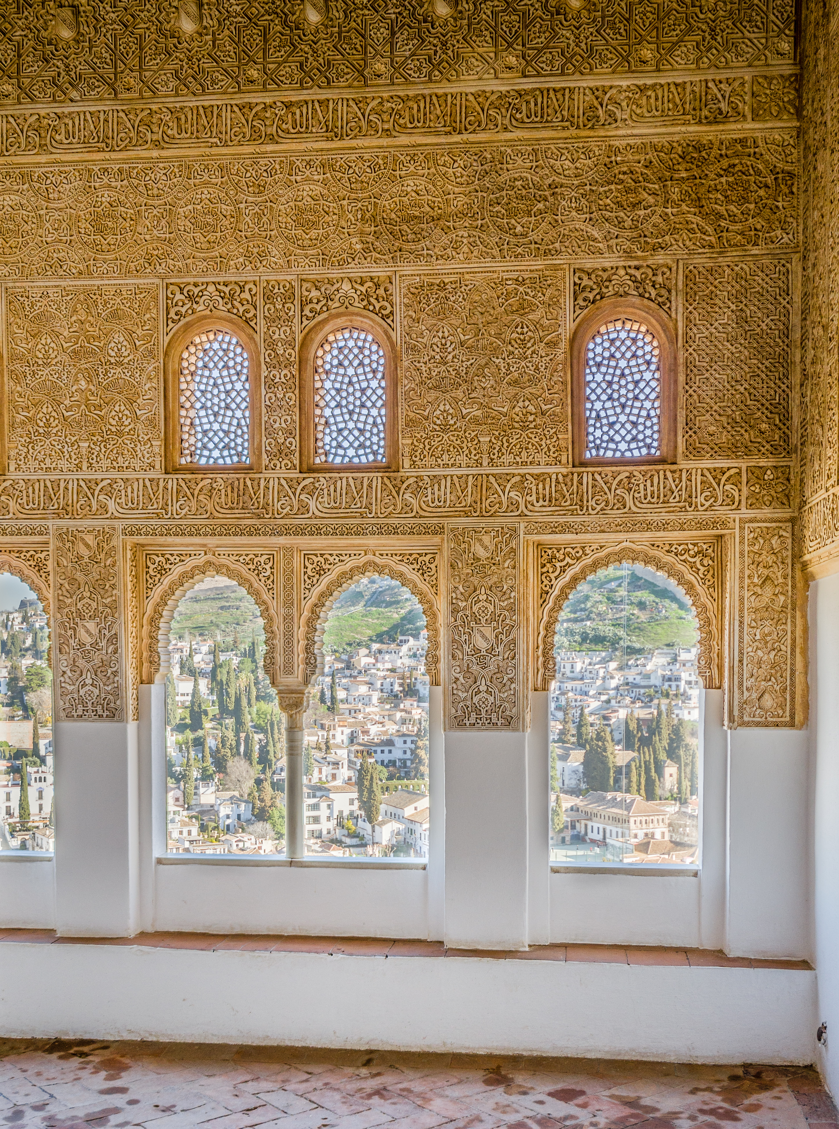 View through windows at Nasrid Palaces over Granada